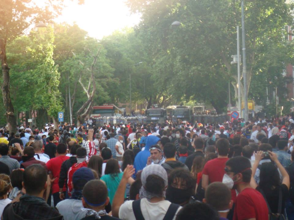 People from Ankara supports 2013 protests in Turkey.